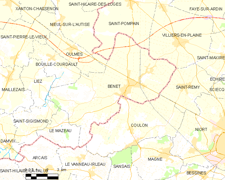 Map of French municipality Benet